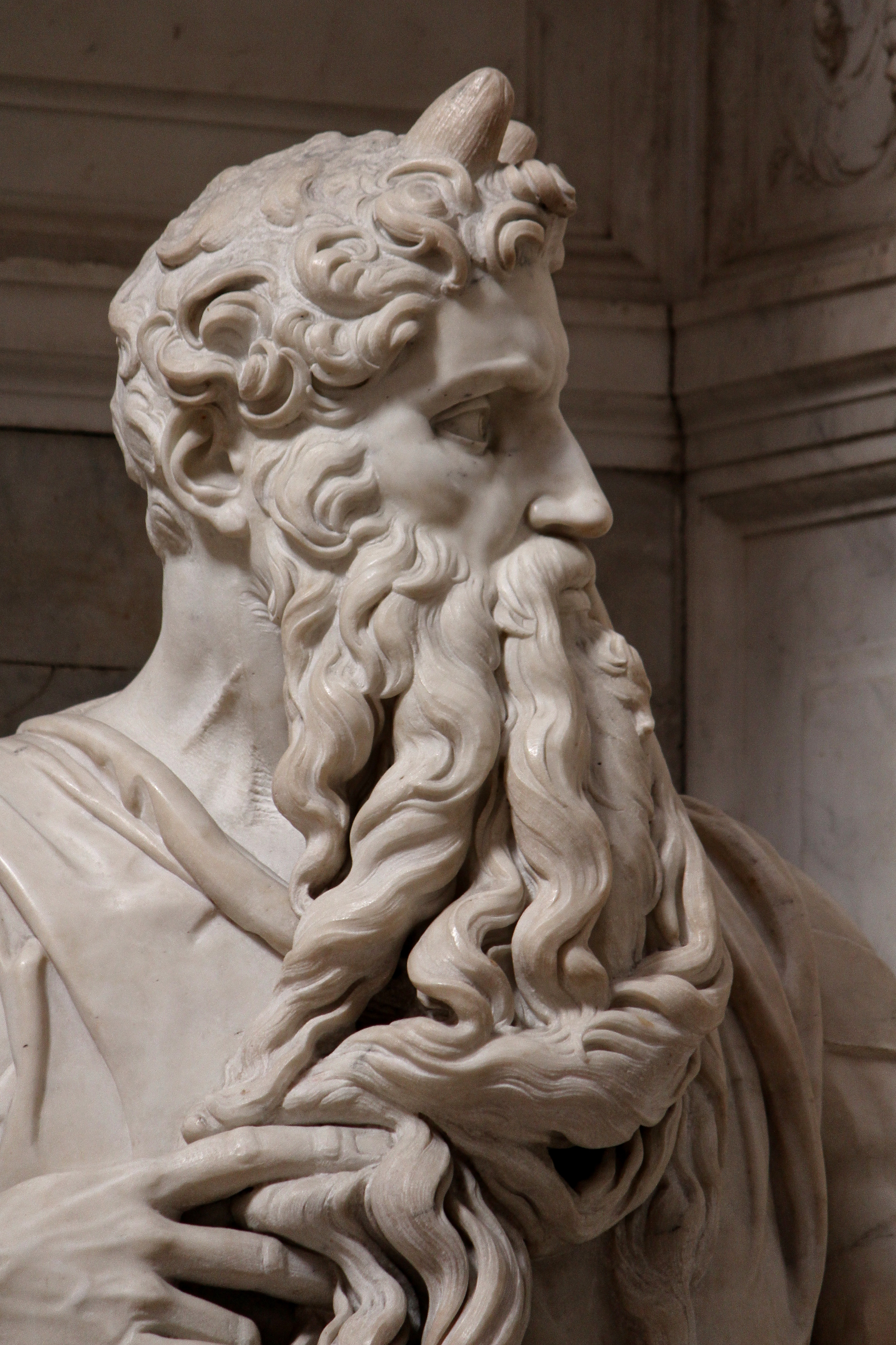 Moses by Michelangelo Buonarroti, Tomb (1505-1545) for Julius II, San Pietro in Vincoli (Rome)